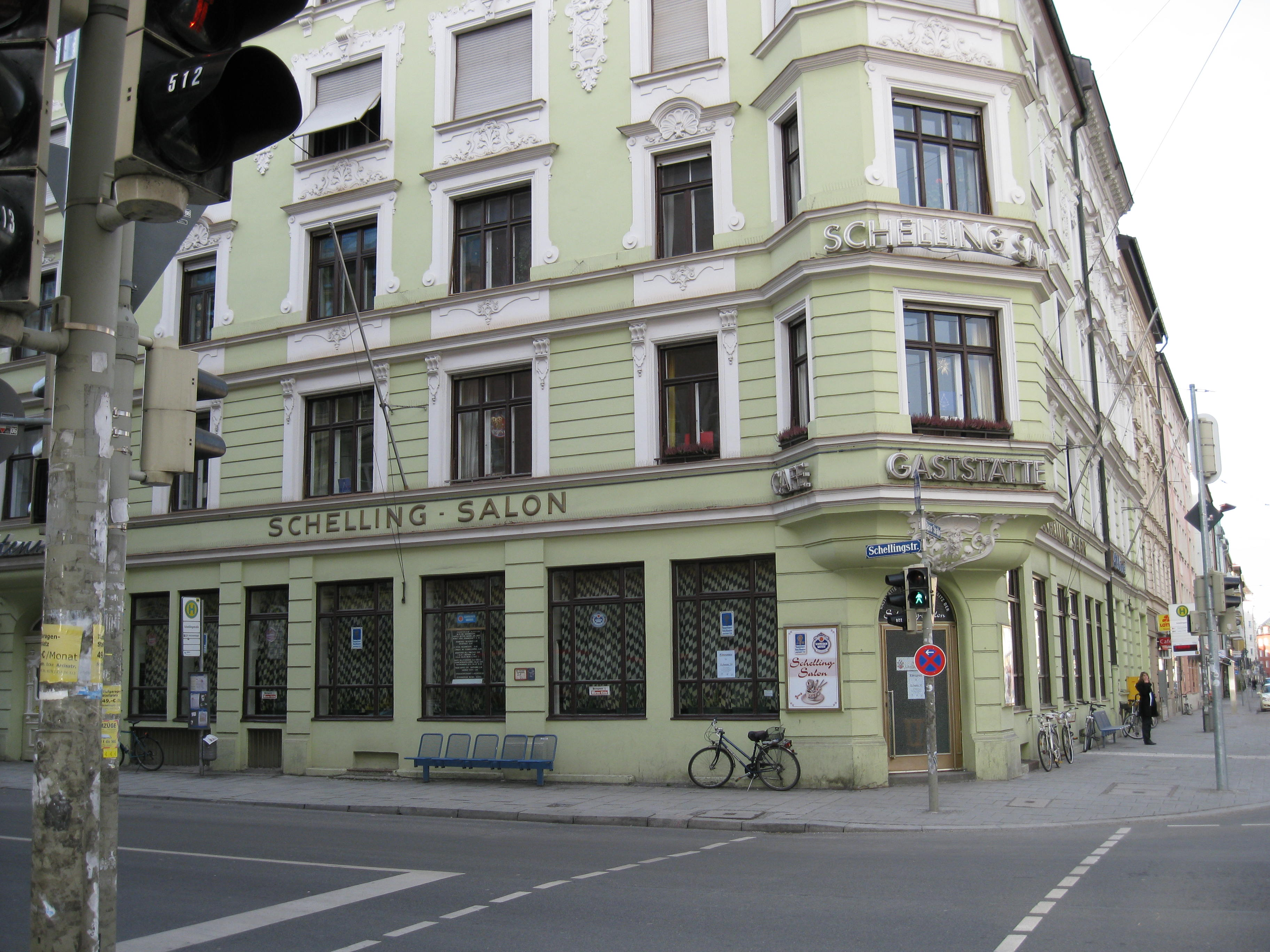 The house of the Schelling-Salon, a bar and restaurant in Munich, Schelling Street.